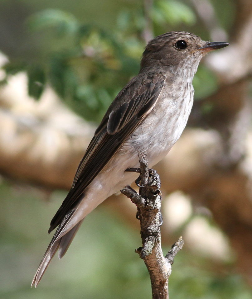 Spotted flycatcher, Muscicapa striata, at Marakele National Park, Limpopo, South Africa